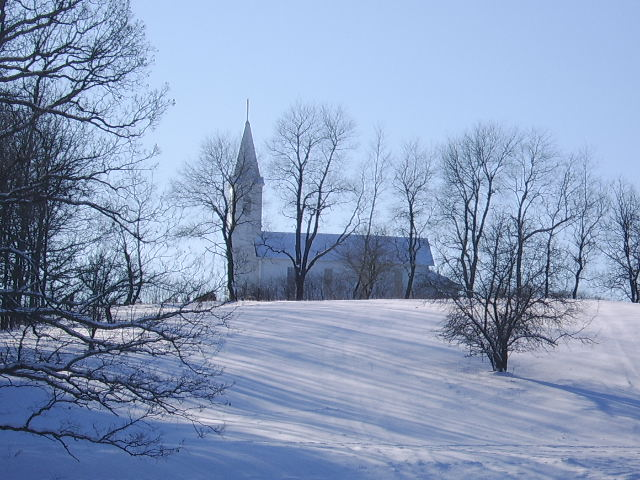 St. John's Wedding Chapel is a church from the 1860s that has been moved to Oak Hill and serves mainly commercial purposes. Its maximum capacity is 200 people. Oak Hill is an unincorporated hamlet in the Apple River Township, Jo Davis County, Illinois. It is located on the south end of Gabel Lane, south of the Stagecoach Trail and southwest of the village of Apple River, Illinois.